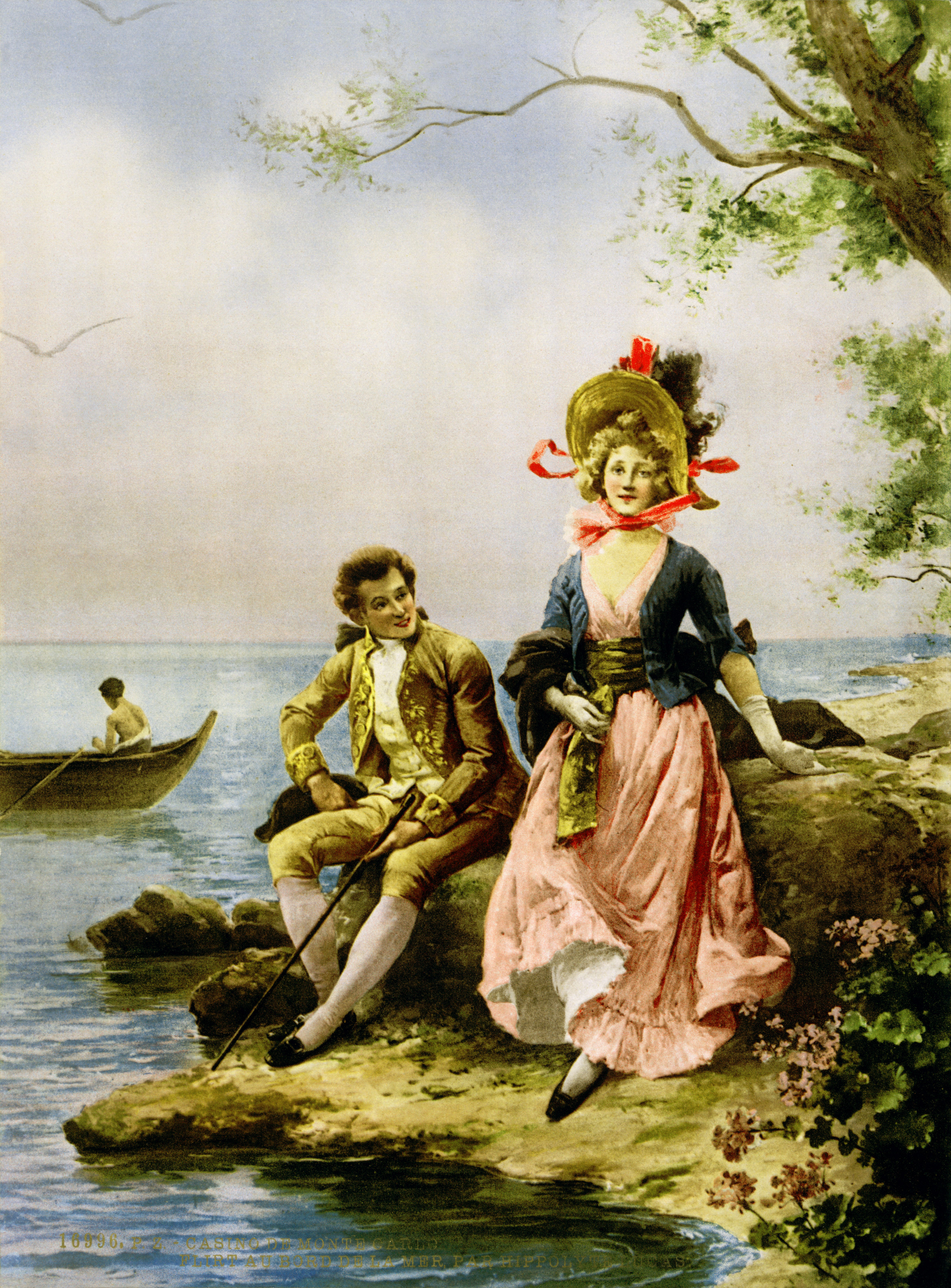 16996 P.Z. Casino de Monte Carlo entrance, Flirt au Bord de la Mer par Hyppolite Lucas. Photochrom print by the Detroit Photographic Co. under license from Photoglob Zürich.